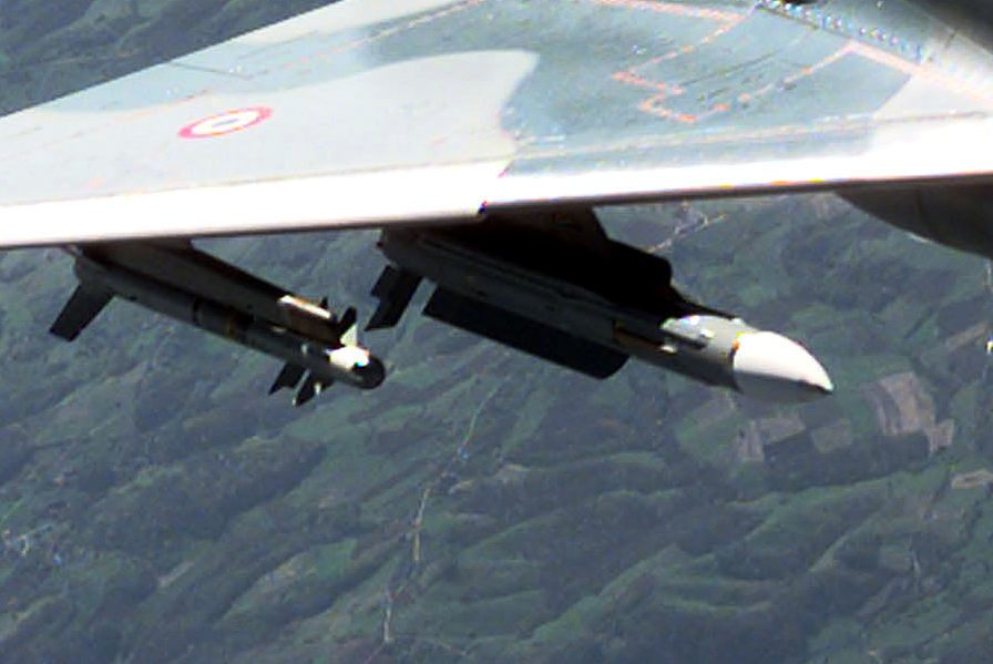 Weapons of a French Mirage 2000C photographed in flight.